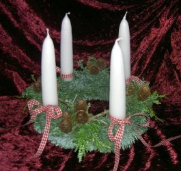 Advent wreath with white candles